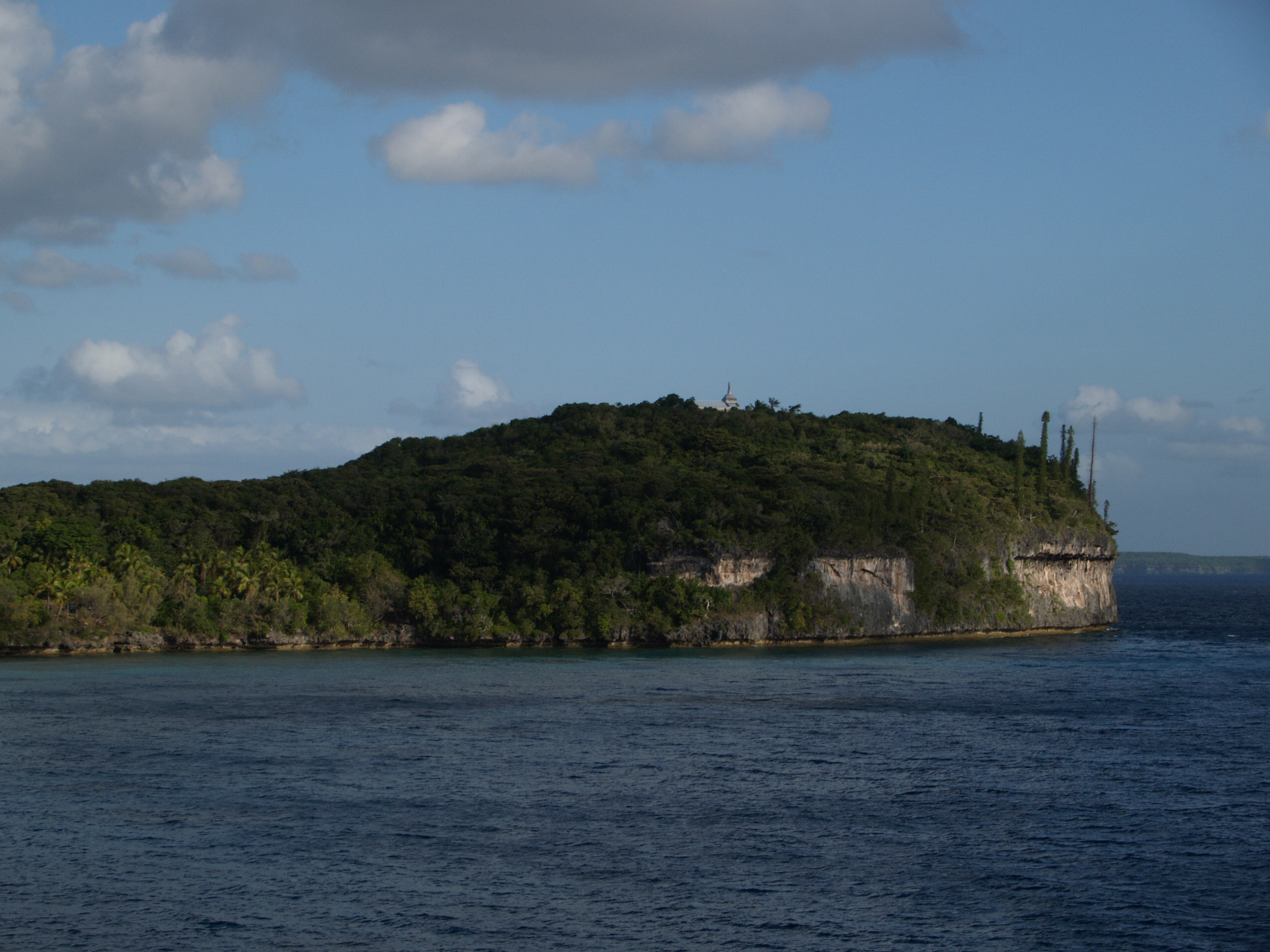 Landscape of the Lifou (Loyalty Islands, New Caledonia) coastal cliff with clear marks of waves erosion corresponding to successive stage of the rise of the island. Notre Dame de Lourdes Chapel visible, shoot taken from the north point of Jinek Bay at Easo tribe.